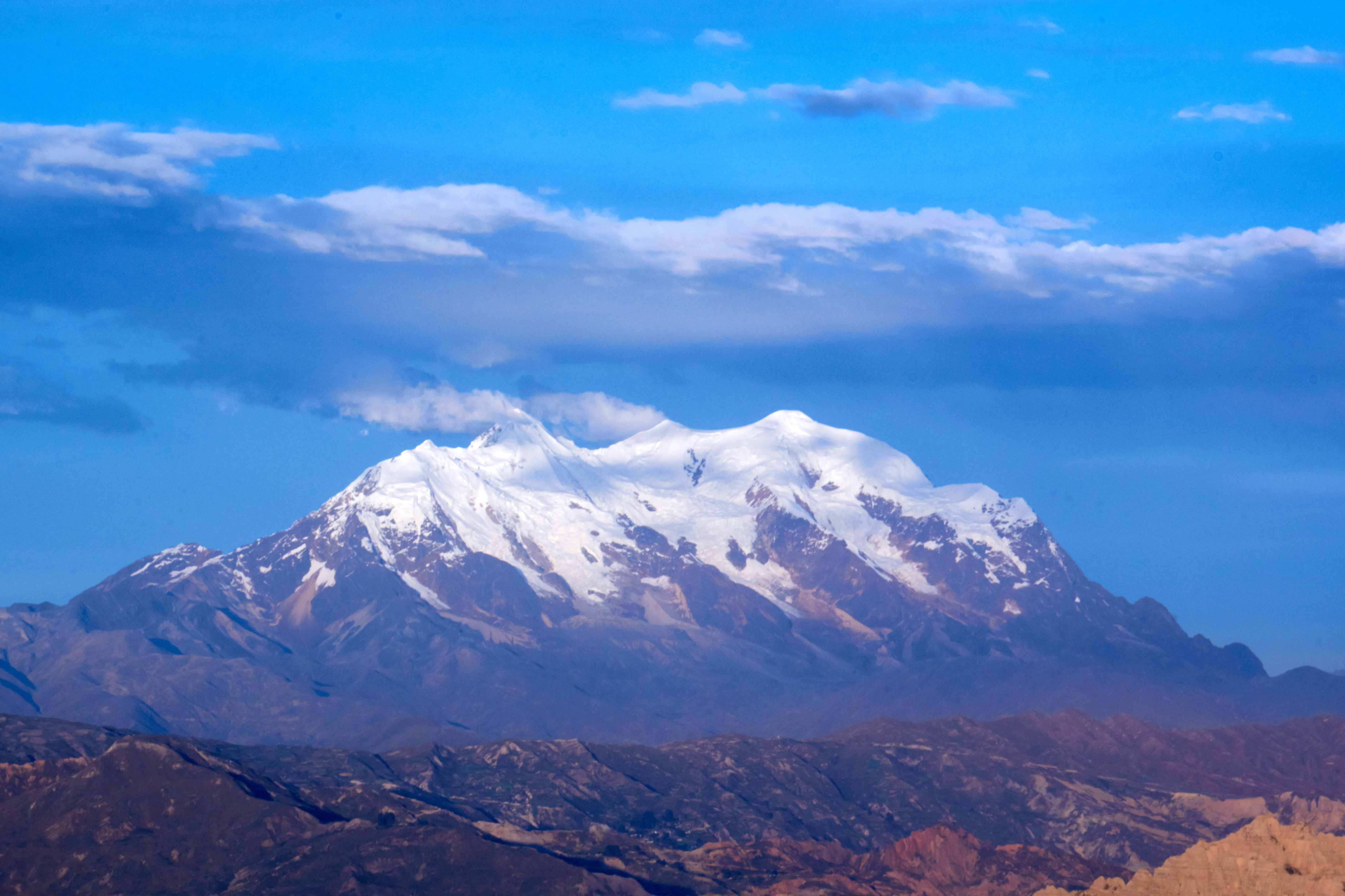 Illimani Mountain, La Paz, Bolivia, view from El Alto city.